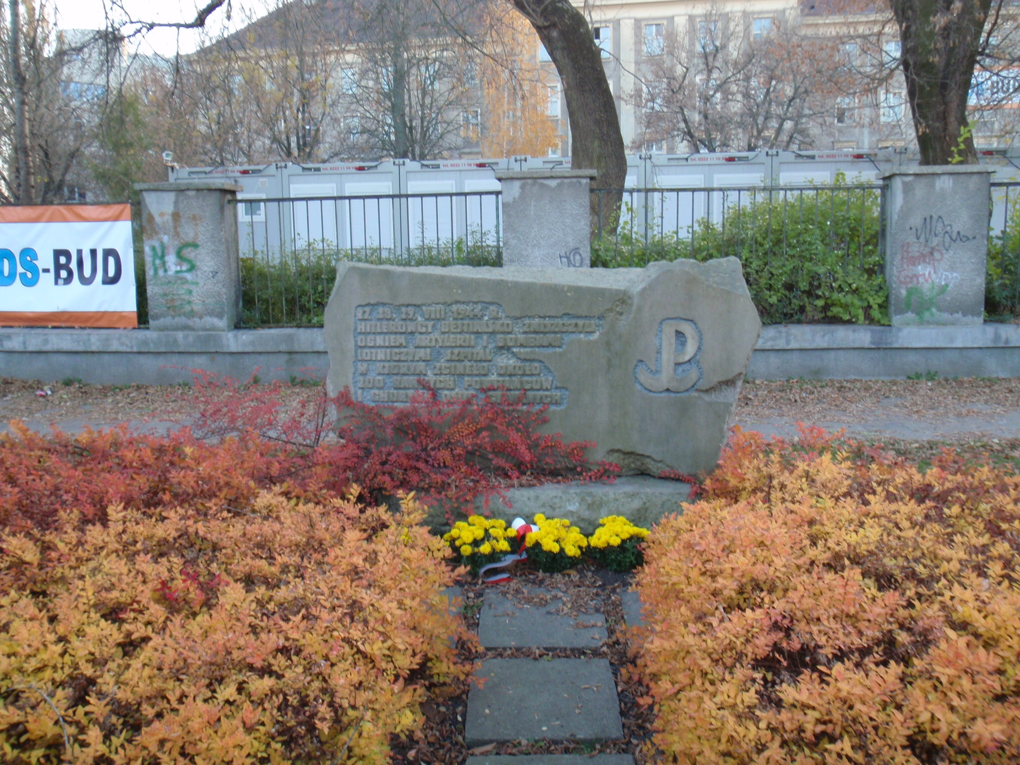 Hospital of Sisters of Saint Elizabeth in Warsaw. Monument commemorating victims of German bombing of the hospital during Warsaw Uprising.